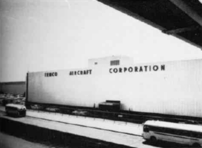 View of the plant of Temco Aircraft in Dallas, Texas (USA).